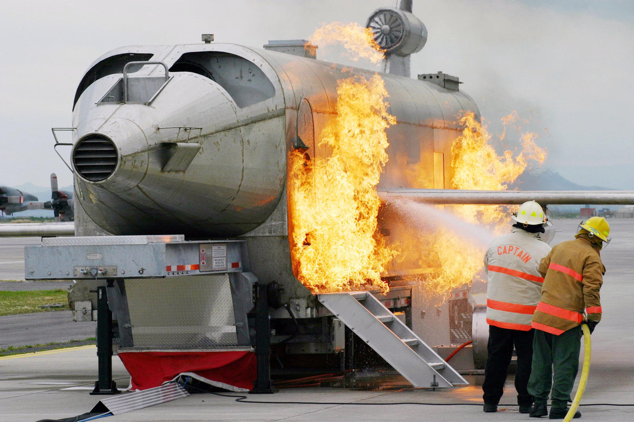 Naval Air Station (NAS) Sigonella, Sicily (Mar. 3, 2004) – Ron Hall, Naval Air Station (NAS) Sigonella Fire Department battalion chief, and Aviation Boatswain's Mate 1st Class Stephen Mark, NAS Sigonella Fire Department assistant training officer, battle a fire while training with the a Mobile Aircraft Fire Trainer (MAFT) on the stations flight line. The NAS fire department recently obtained the system to improve training system. The MAFT can simulate engine fires, wheel fires, interior fires, and tire blowouts. NAS Sigonella provides logistics support to Commander Sixth Fleet and NATO forces in the Mediterranean area of operation (AOR). U.S. Navy photo by Journalist 3rd Class Stephen P. Weaver. (RELEASED)